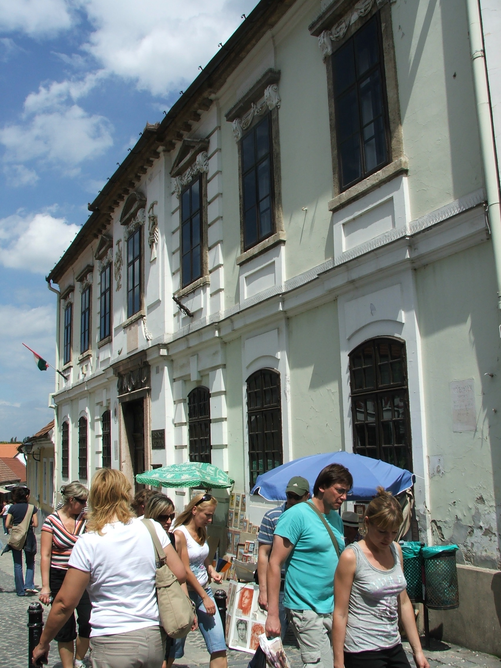 Ferenczy Museum in Szentendre